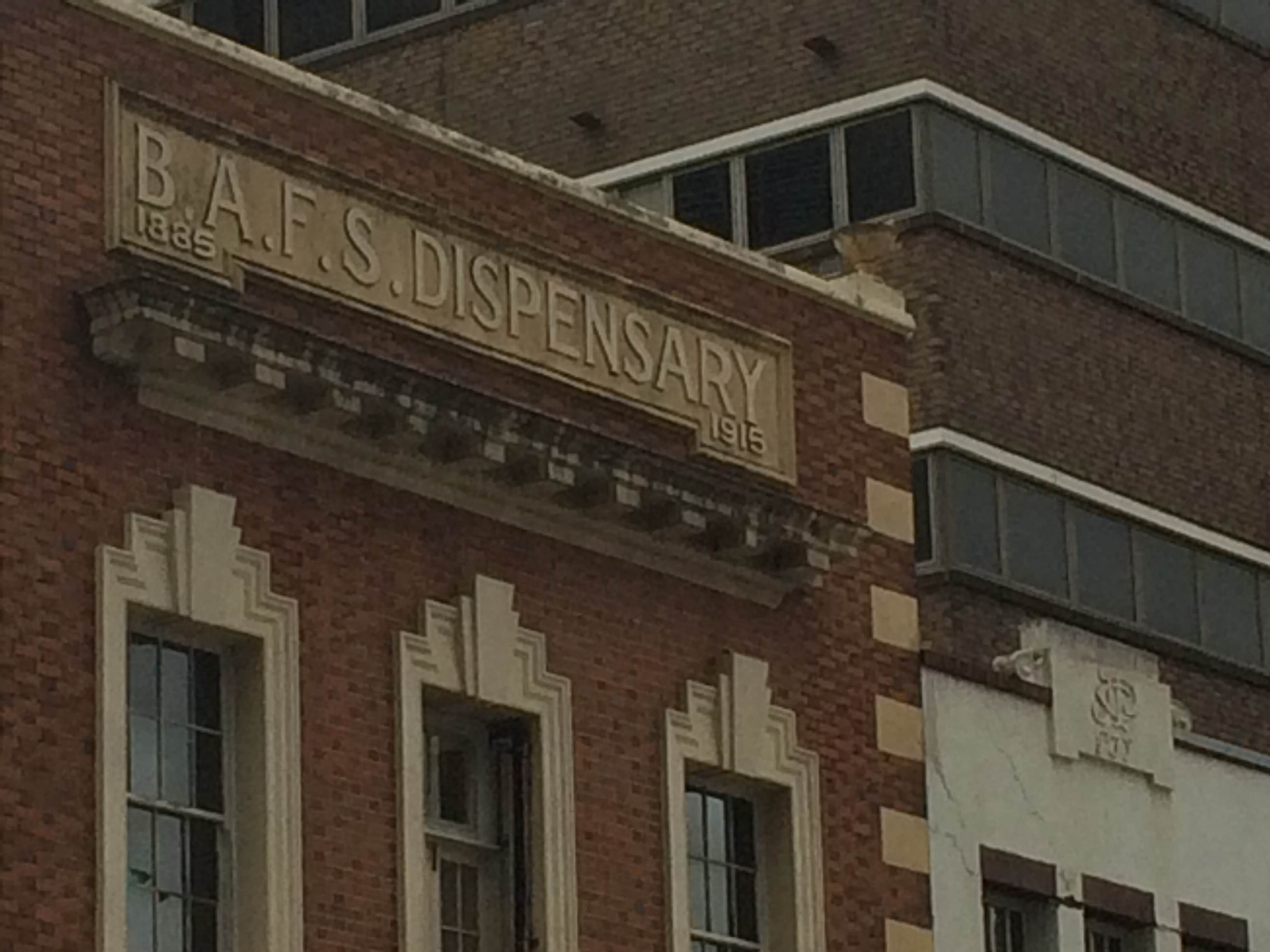 Brisbane Associated Friendly Societies (BAFS) Building, corner of George and Turbot Street, Brisbane - sign at top of George Street facade